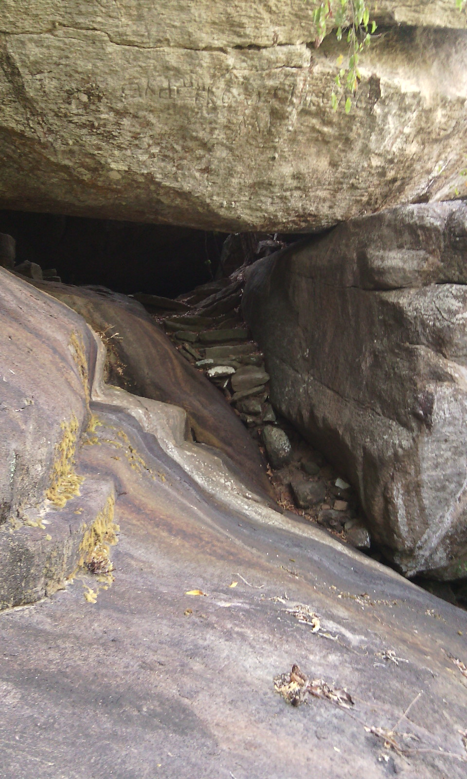 A cave with old rock inscriptions